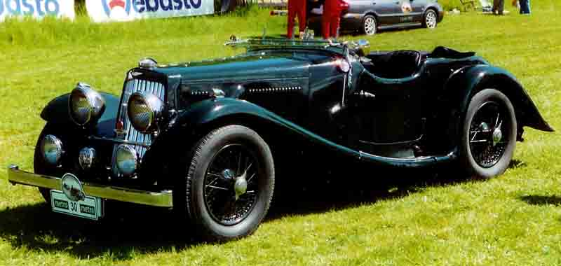 Aston Martin 2-Litre 2/4-Seater Sports 1937